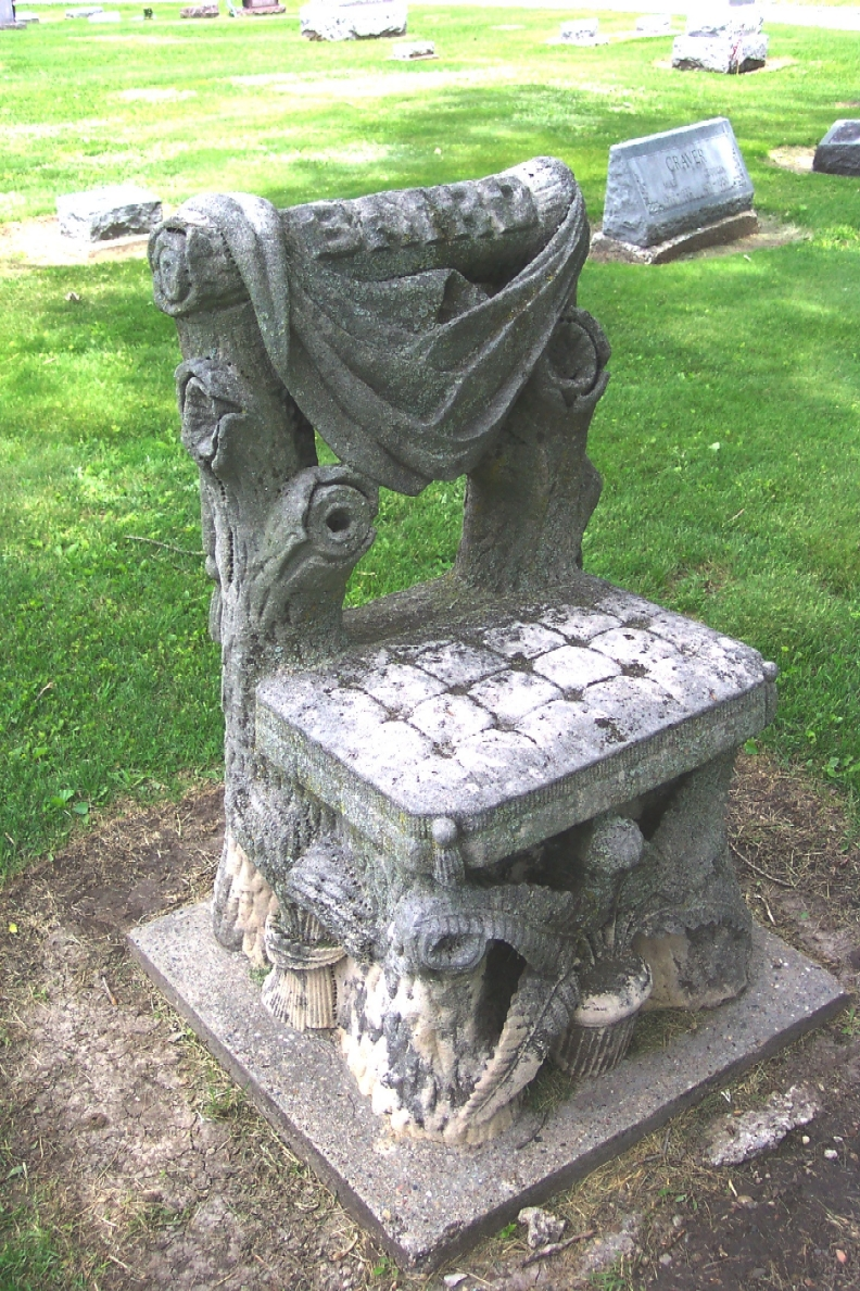 image of a funerary monument in Kirksville MO, believed to cause death to anyone who sits on it. However, many living college students and town residents beg to differ.